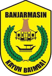 Lambang (Coat of Arms) of Kota (City) Banjarmasin, Provinsi Kalimantan Selatan (South Kalimantan Province, on island Borneo/Kalimantan in id), Indonesia